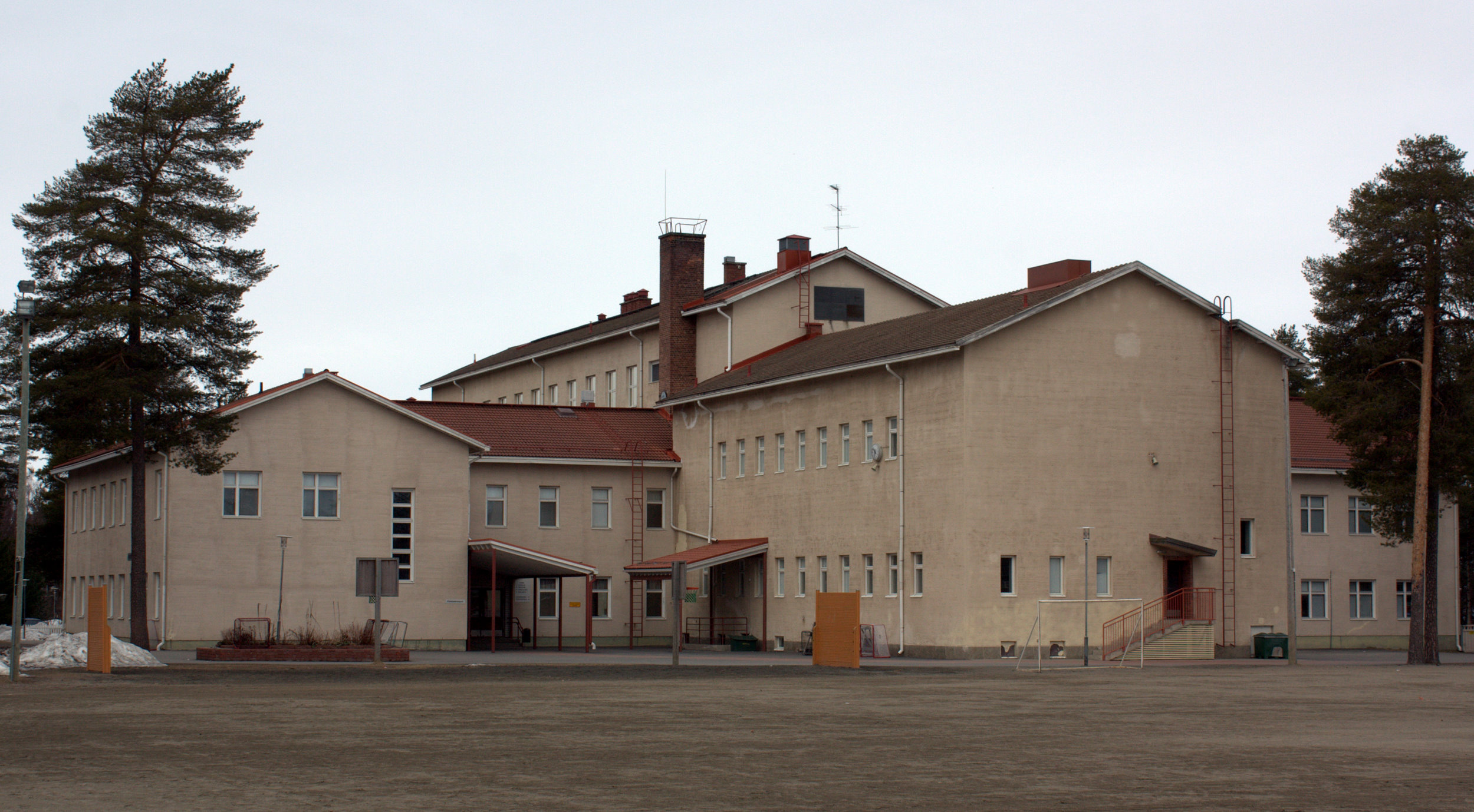 Kirkonkylä School, Haukipudas, Finland.